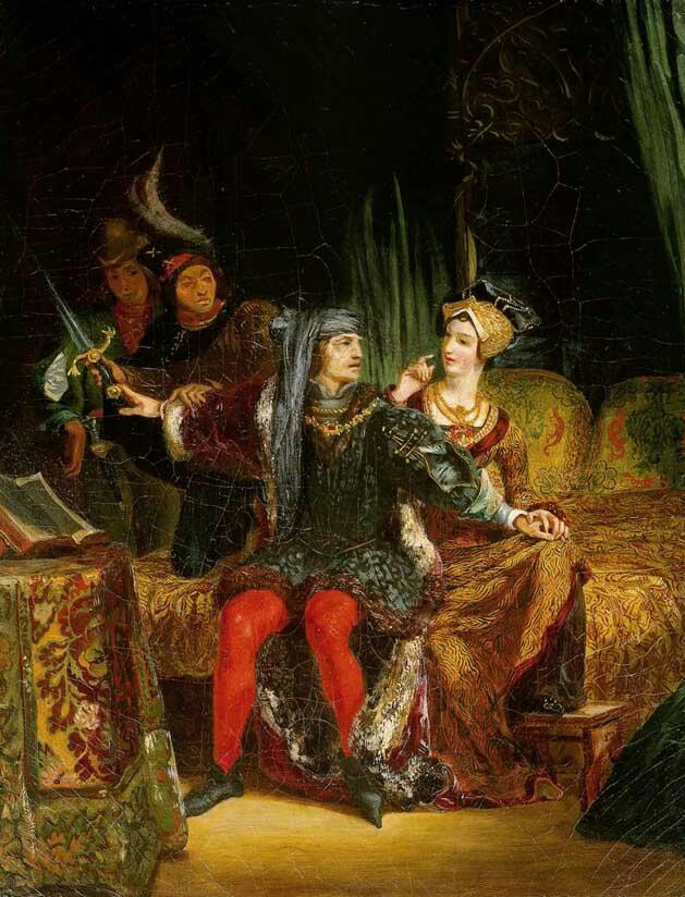 Portrait of Charles VI and Odette, by Eugène Delacroix.